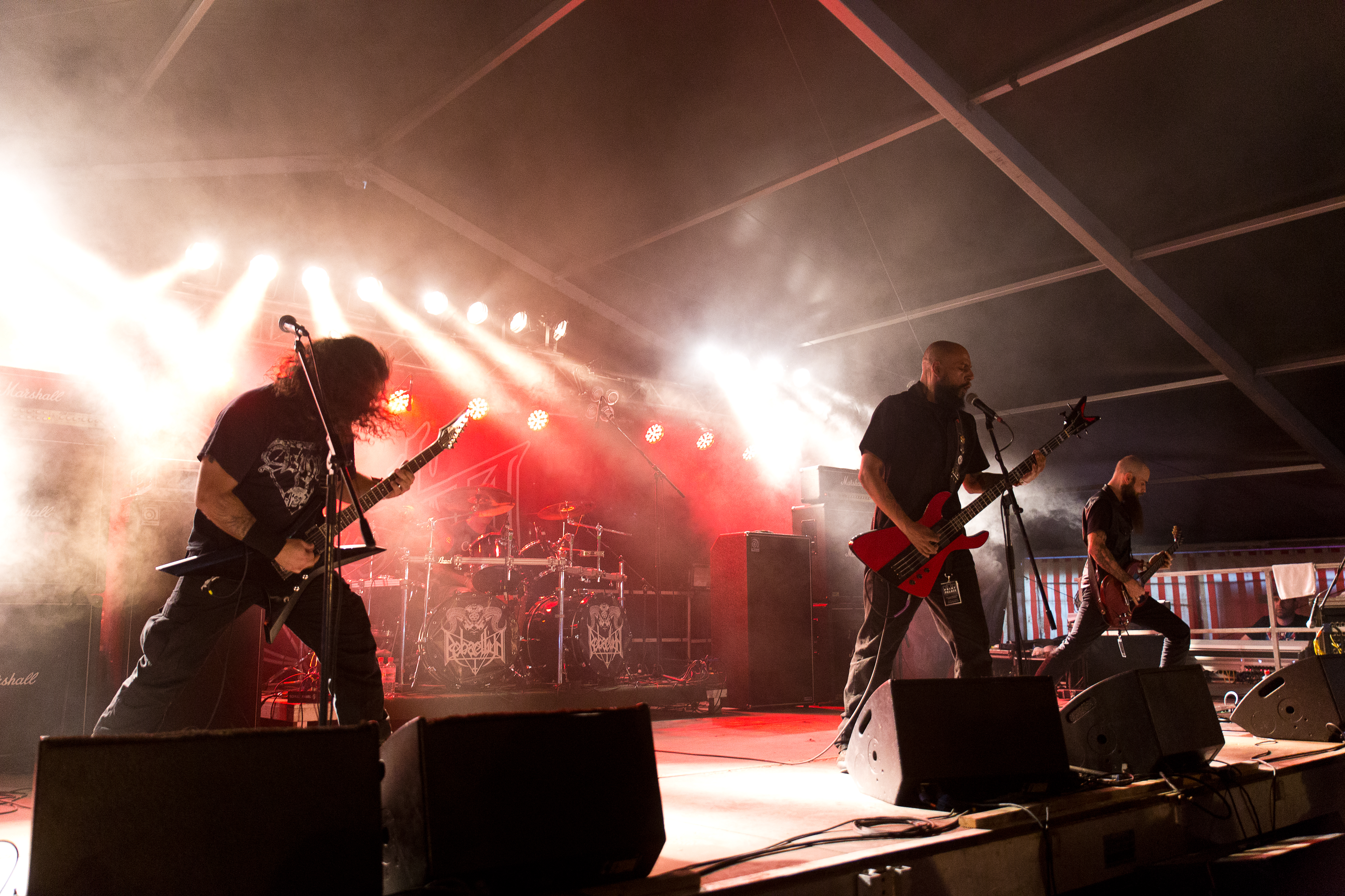 The Brazilian death metal band Rebaelliun at the Party.San Metal Open Air 2016 in Obermehler-Schlotheim/Germany.